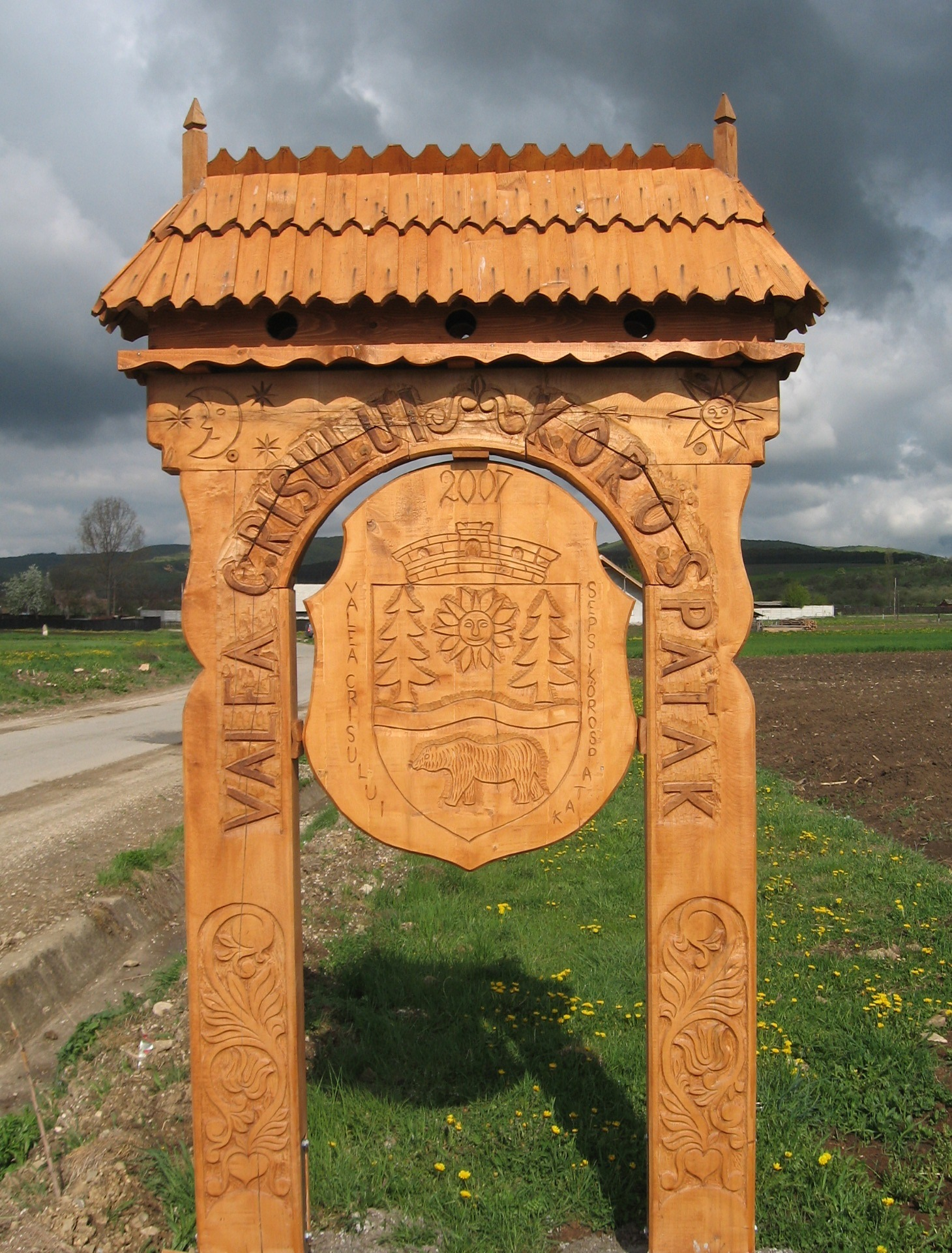 Covasna County ,Valea Crişului,Village gate